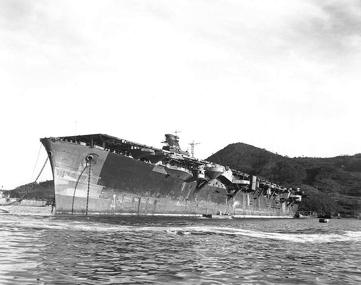 The Japanese aircraft carrier Junyō anchored at Sasebo, Japan, on 26 September 1945.